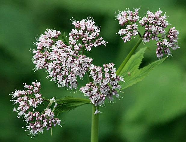 A flower head of Pyrenean Valerian. A mass of small delicate pink flowers bloom on a stem at this roadside display 1354655.